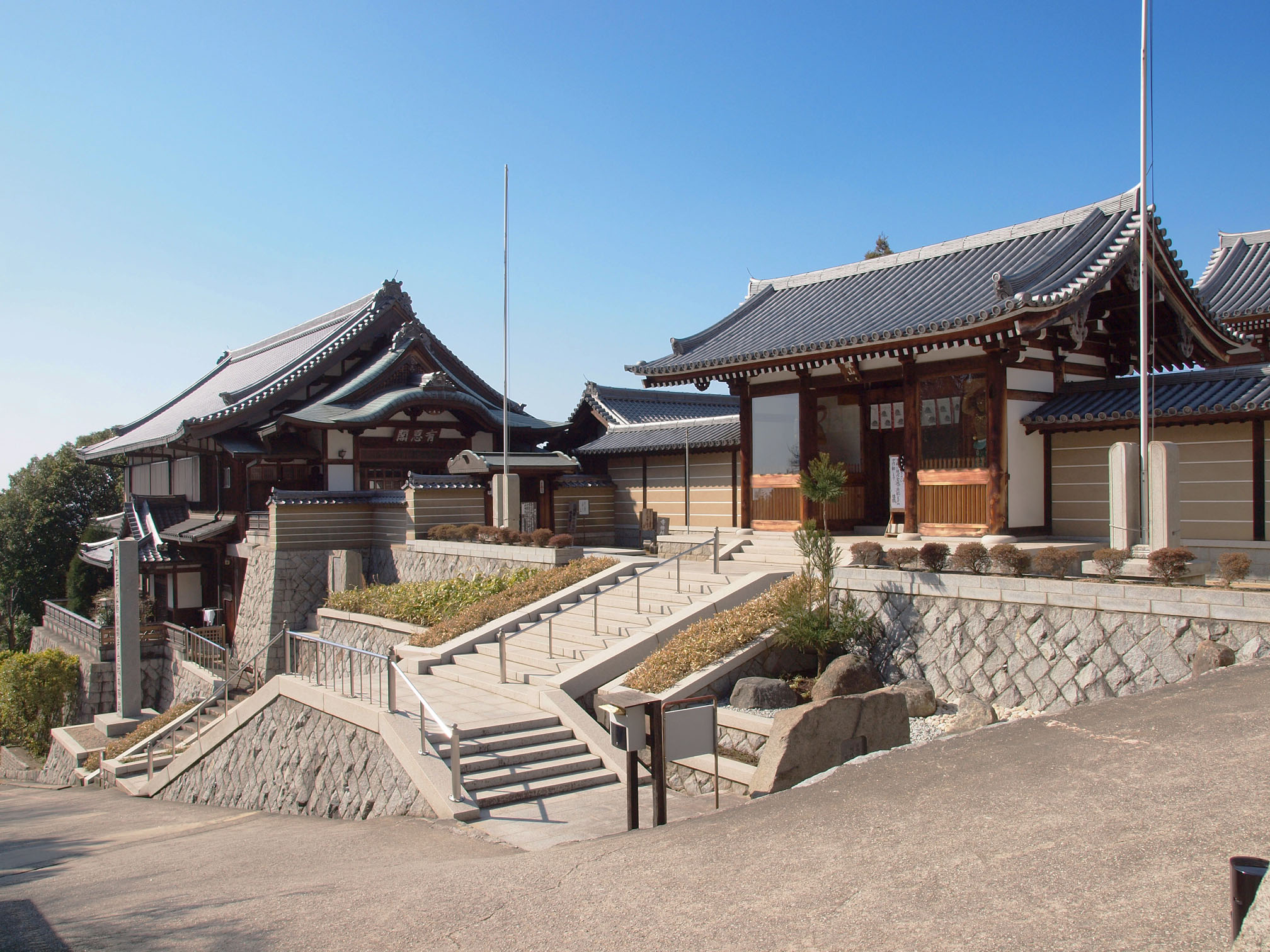 Ojoin Rokuman-ji (Temple) in Higashiosaka, Osaka, Japan